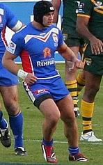 This is a photo of Kane Bentley playing for France in the France-Australia match of the Four Nation tournament in 2009.